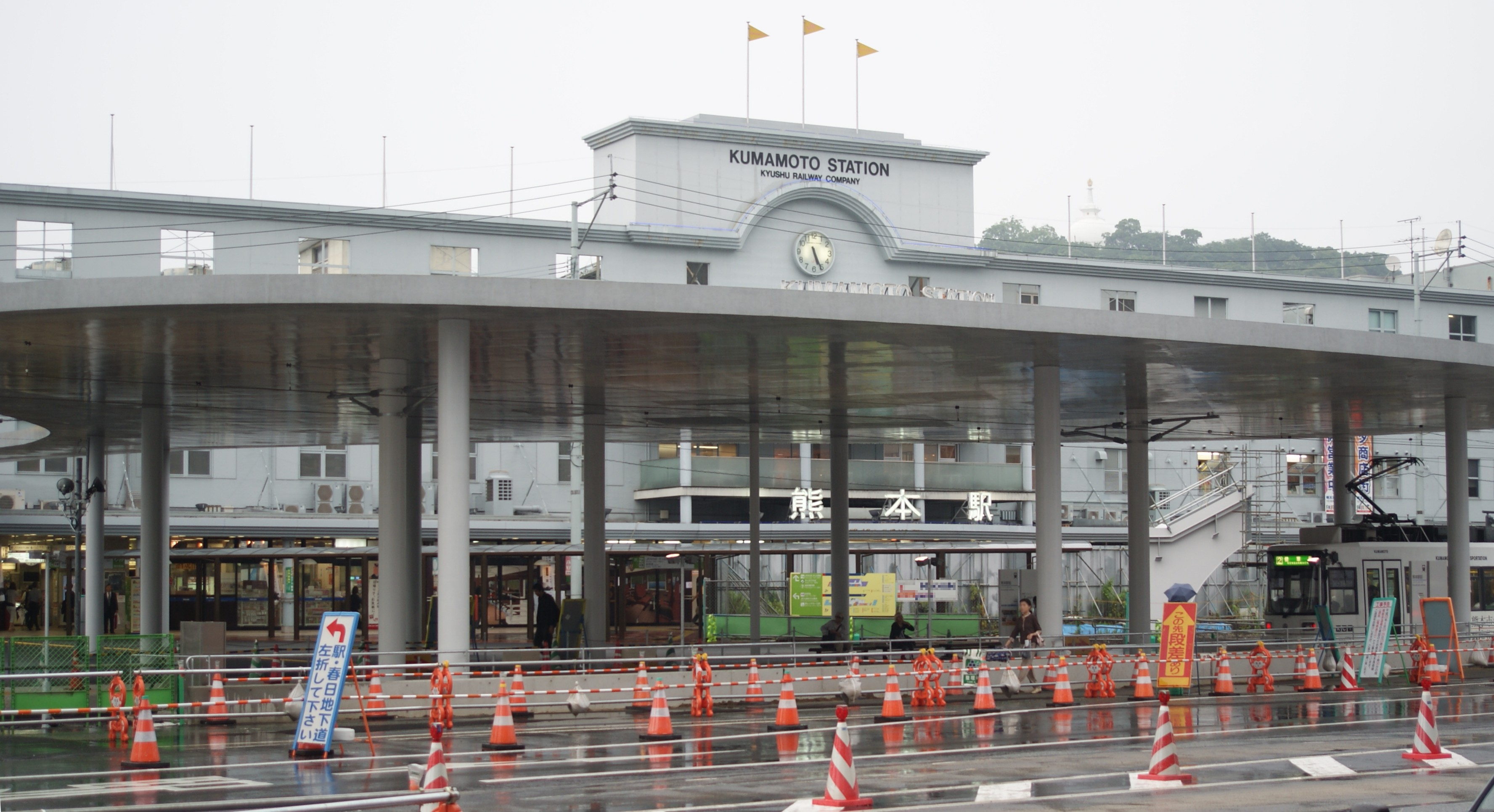 Kumamoto City Tram Kumamoto Ekimae tram stop, Kumamoto City, Kumamoto, Japan